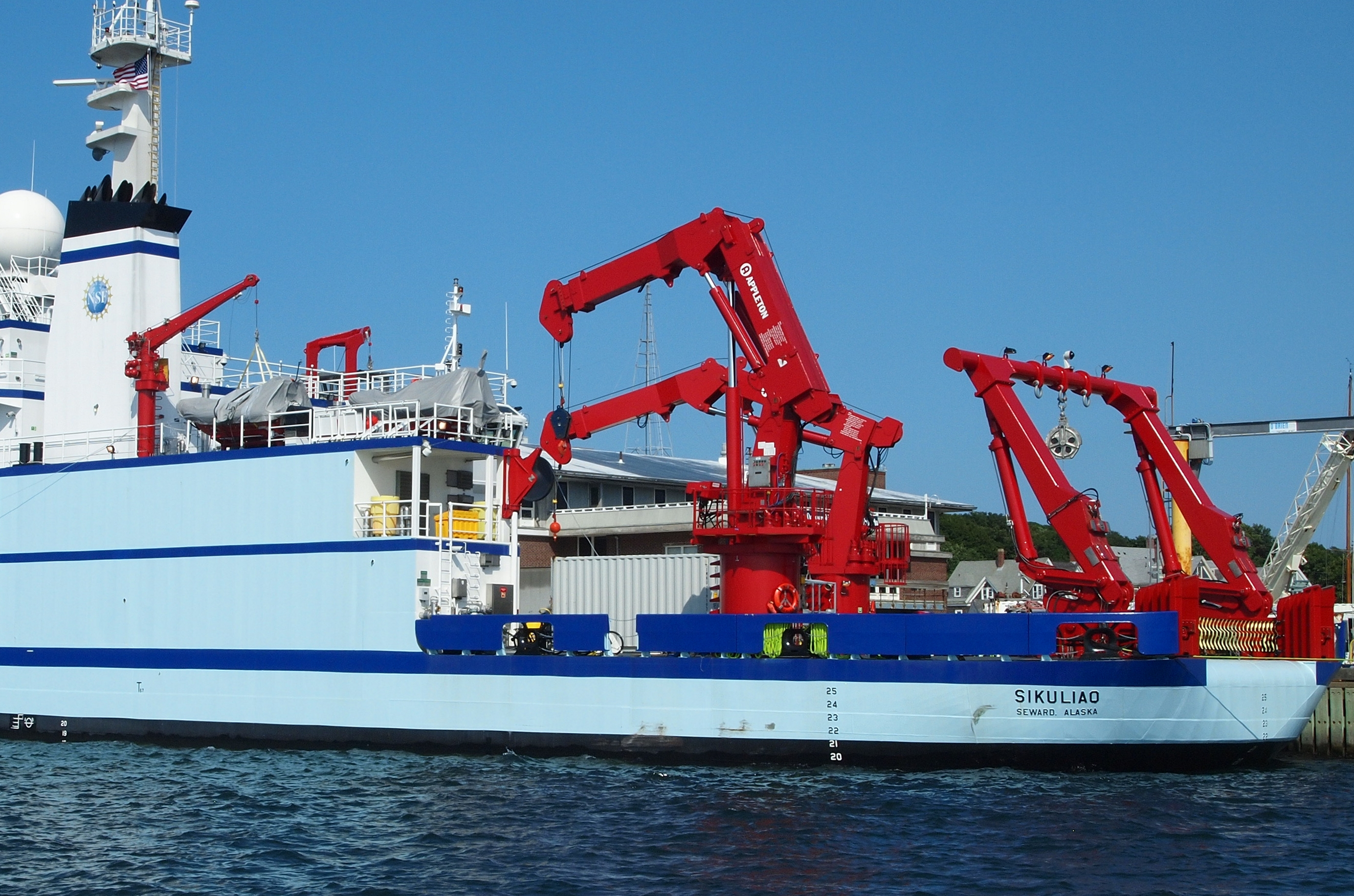 Aft Deck of R/V Sikuliaq docked at Woods Hole Oceanographic Institution.